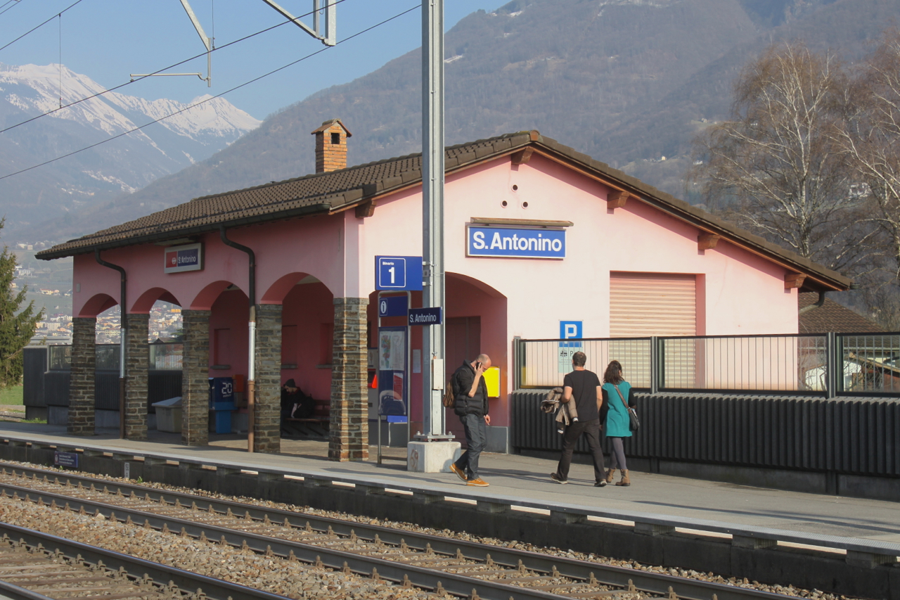 S. Antonino train station (platform 1).